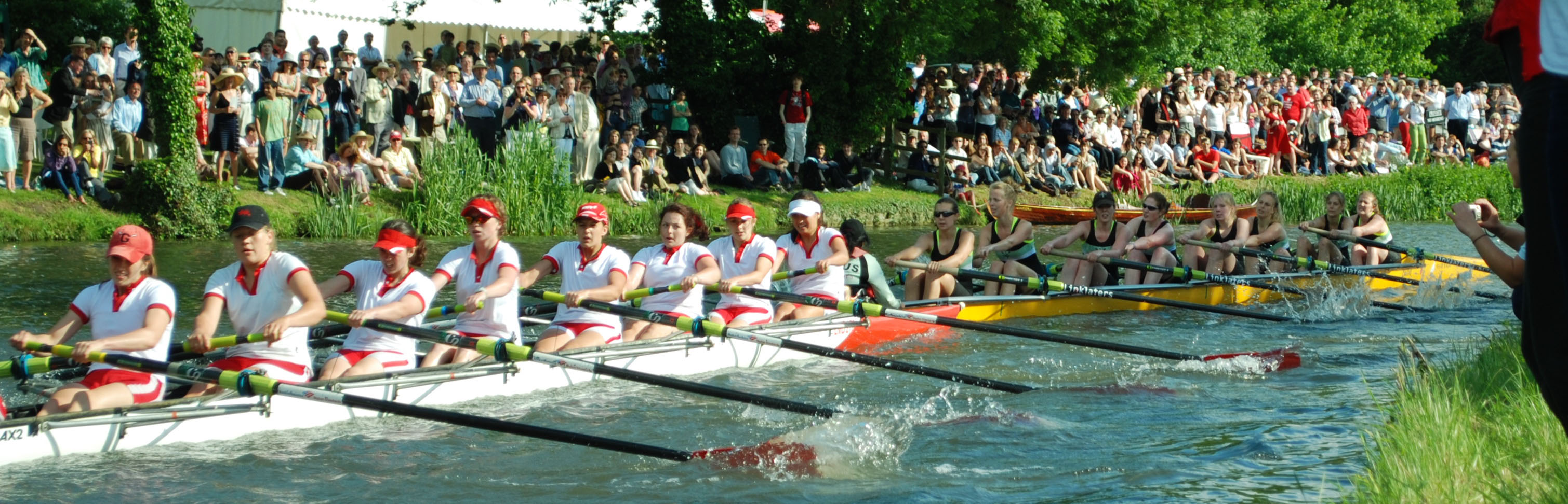 LMBC bumping Caius, Mays, Saturday, 2010